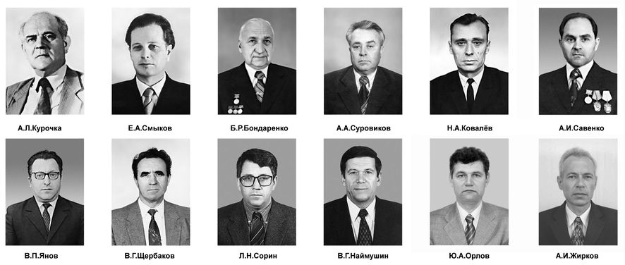 Directors of the VELNII 1958-2013 гг.